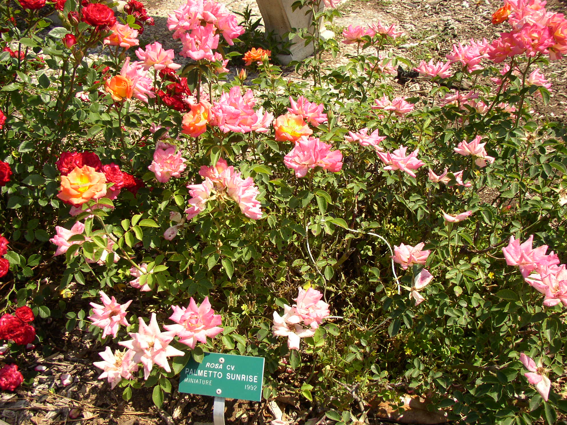 Photographed by AllyUnion at University of California, Riverside's Botanical Gardens.